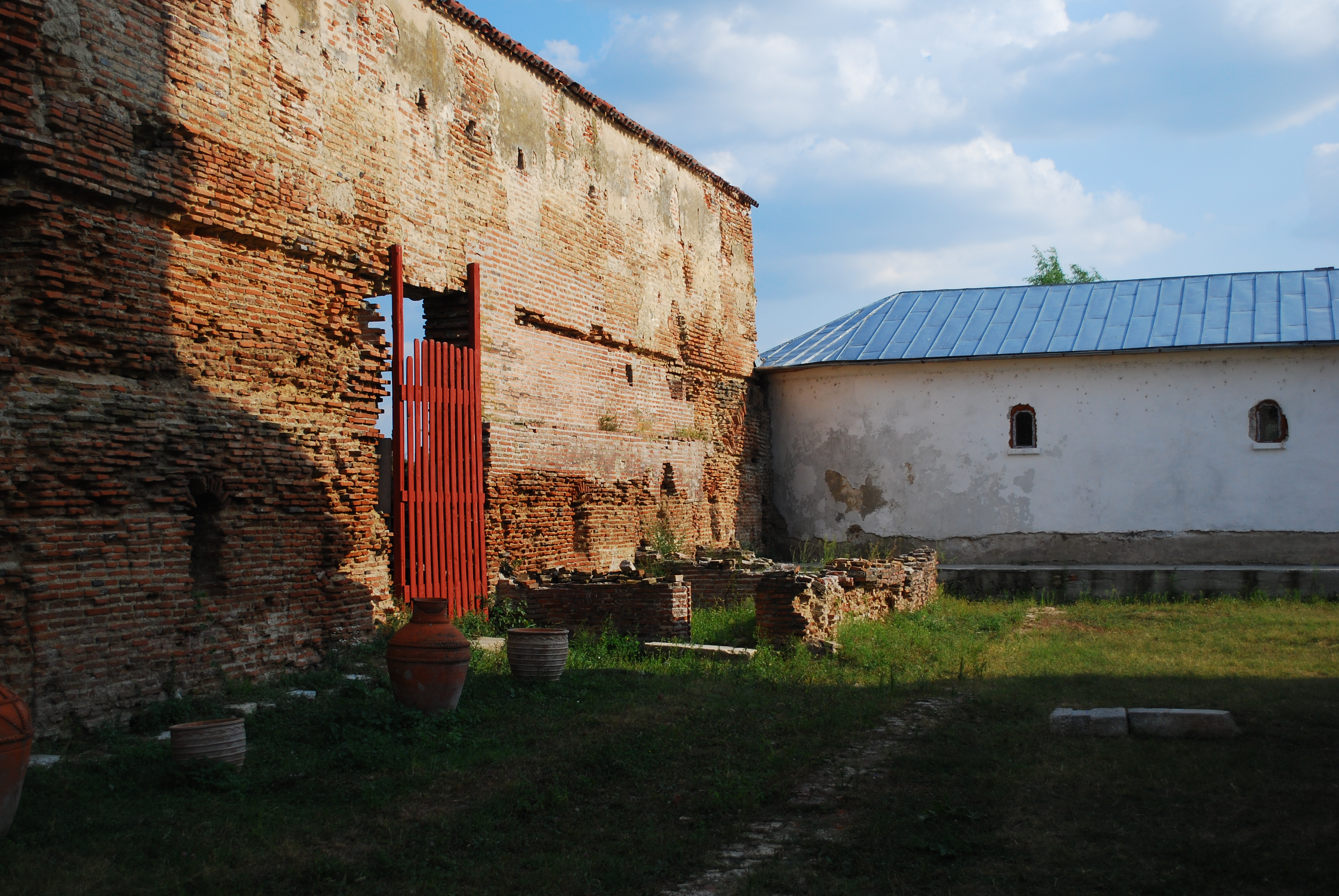 Back wall of the Comana monastery, Giurgiu County, Romania